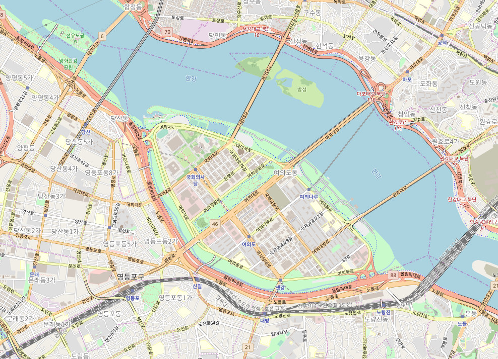 Map of Yeouido